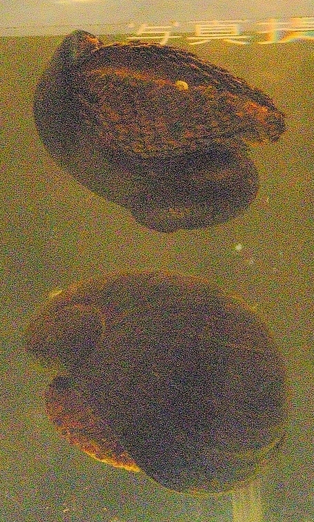 ウロコフネタマガイ Scaly-foot gastropod Genus Crysomallon Species Crysomallon squamiferum Location: Shin-Enoshima aquarium, Kanagawa, Japan Other photos: Copyright: OpenCage